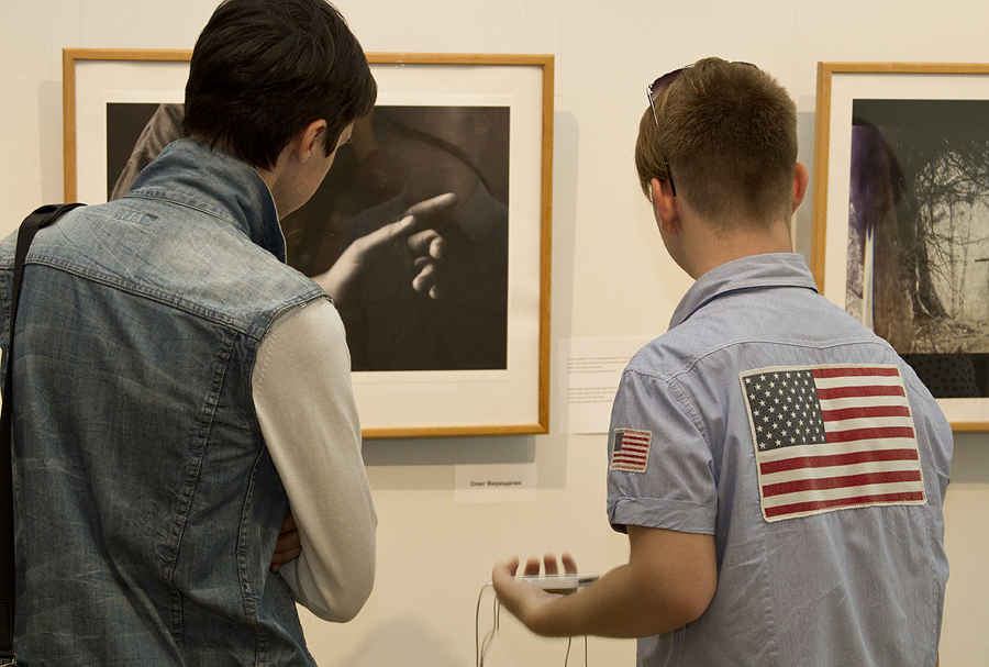 Фотопроект "Интеррпретация". 2013 г.